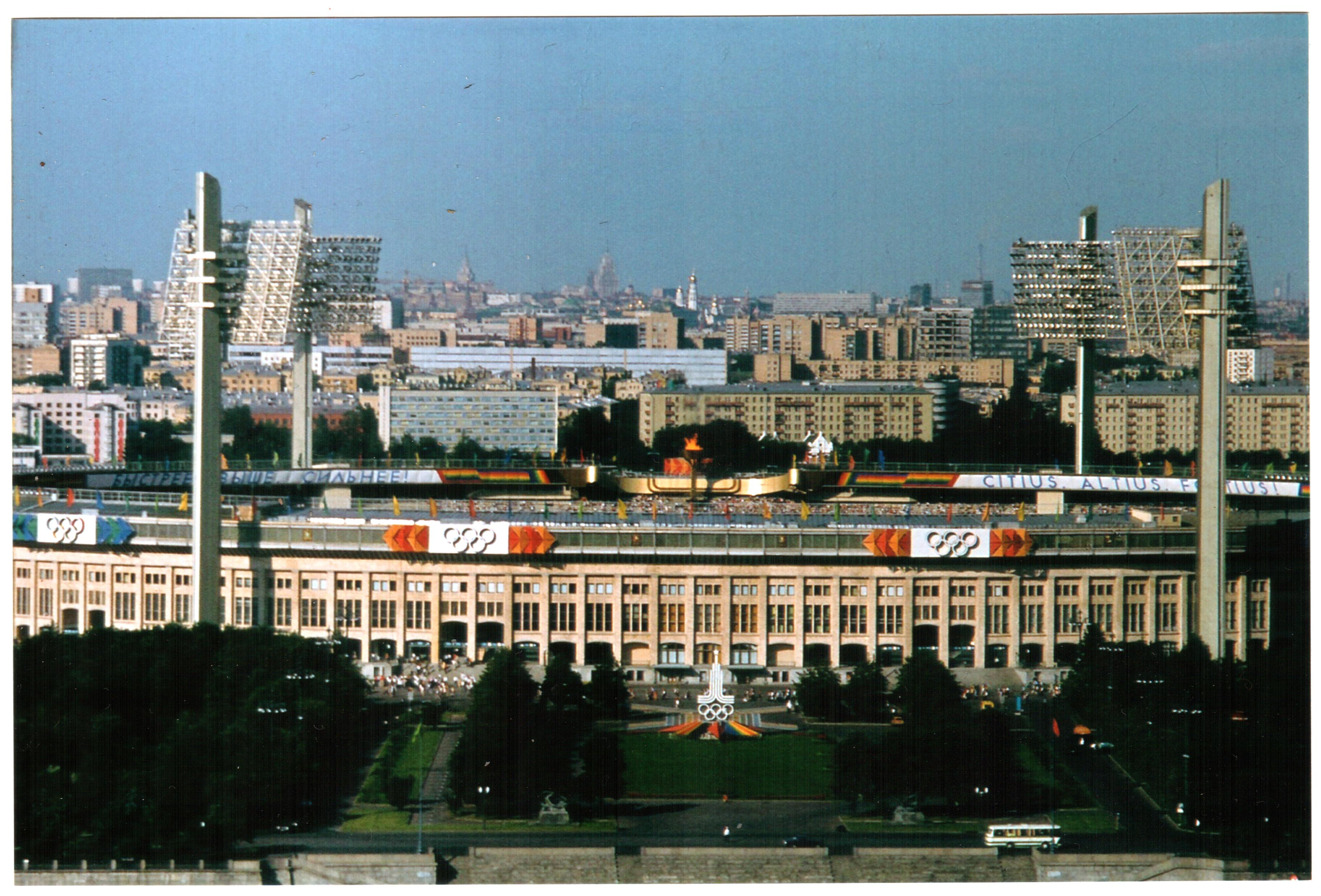 Moscow Olympic Games, 1980. Live in Moscow, in the Summer, 1980. I travelled with a Hungarian group of fans, from Budapest, Hungary. Published under Creative Commons in the Metapolisz DVD line.